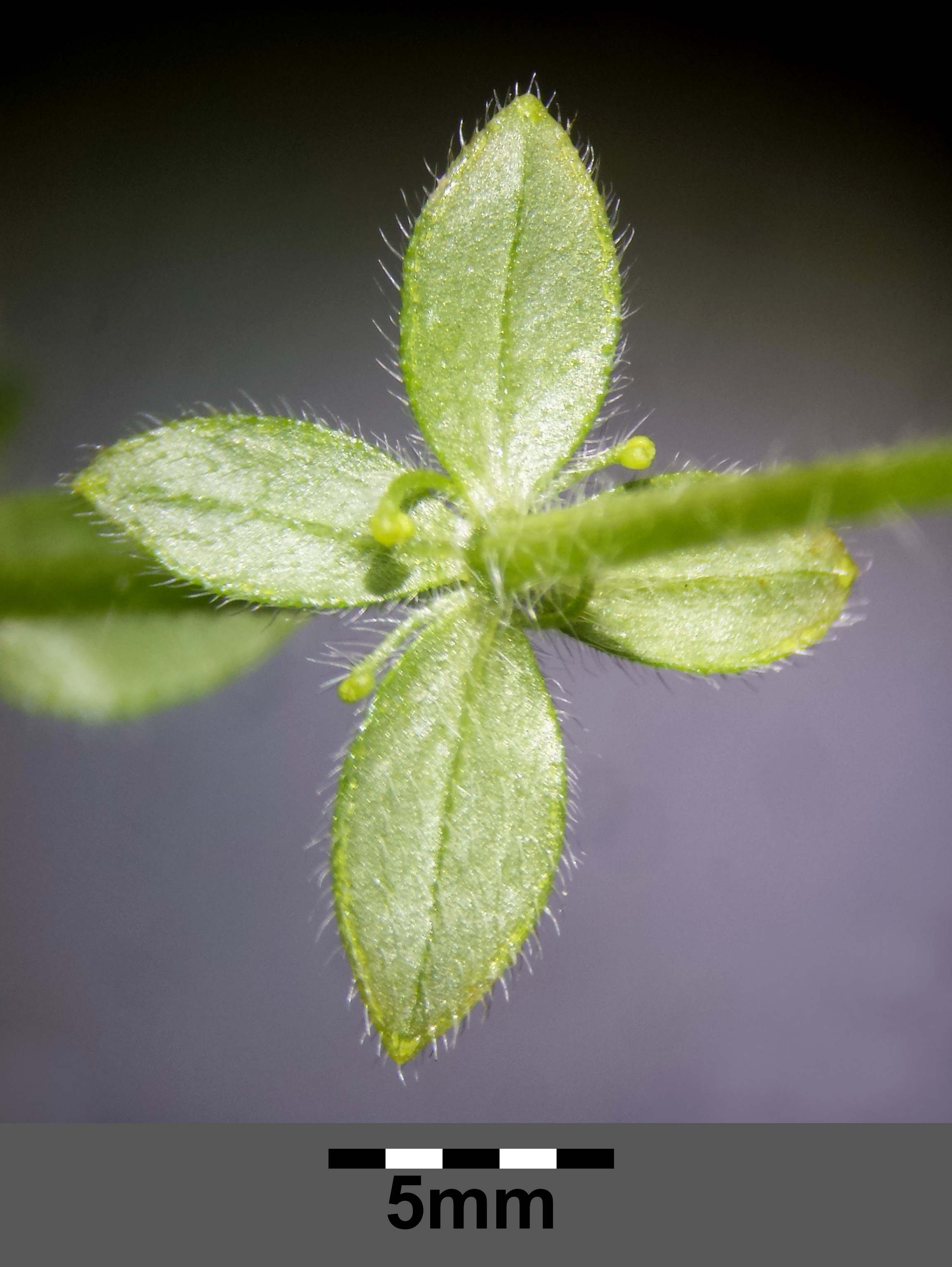 Leaves/stipules Taxonym: Cruciata pedemontana ss Fischer et al. EfÖLS 2008 ISBN 978-3-85474-187-9 Location: Lange Lüsse near Marchegg, district Gänserndorf, Lower Austria - ca. 140 m a.s.l. Habitat: poor grassland